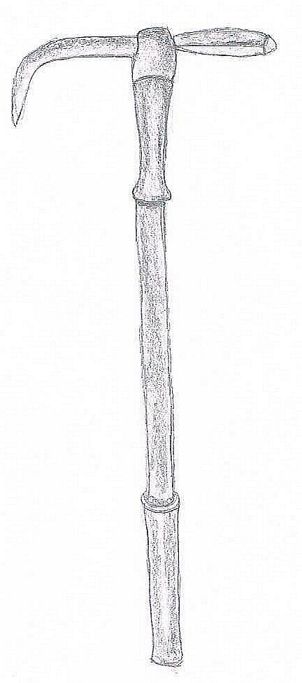 Turk.Persian Warhammer